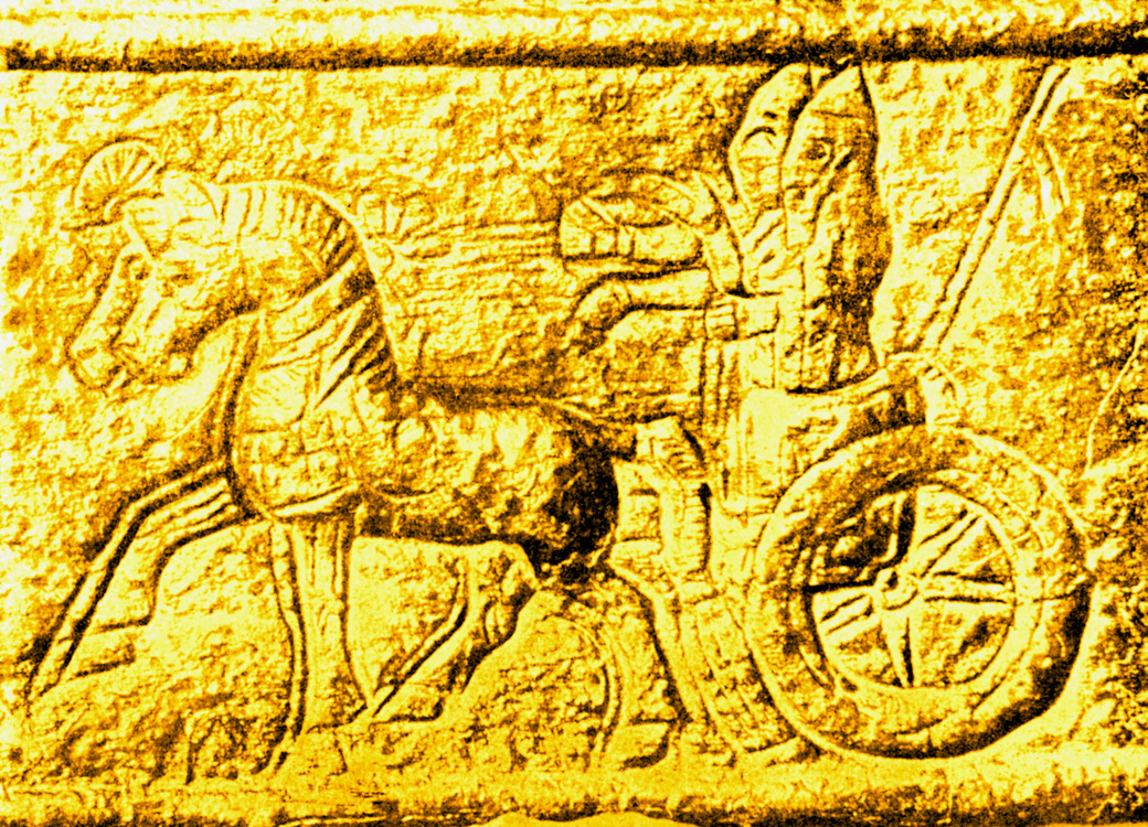 A chariot from Urartu.